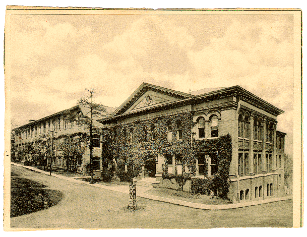 Subject: the Lyman Hall Laboratory of Chemistry at the Georgia School of Technology circa 1913 at